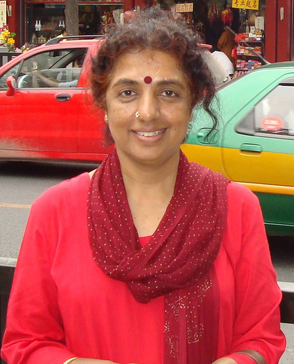 Photo of Shoba Raja